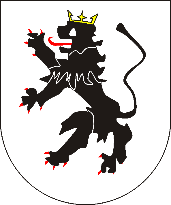 coats of arms of yhe bourgraviat of Kirchberg